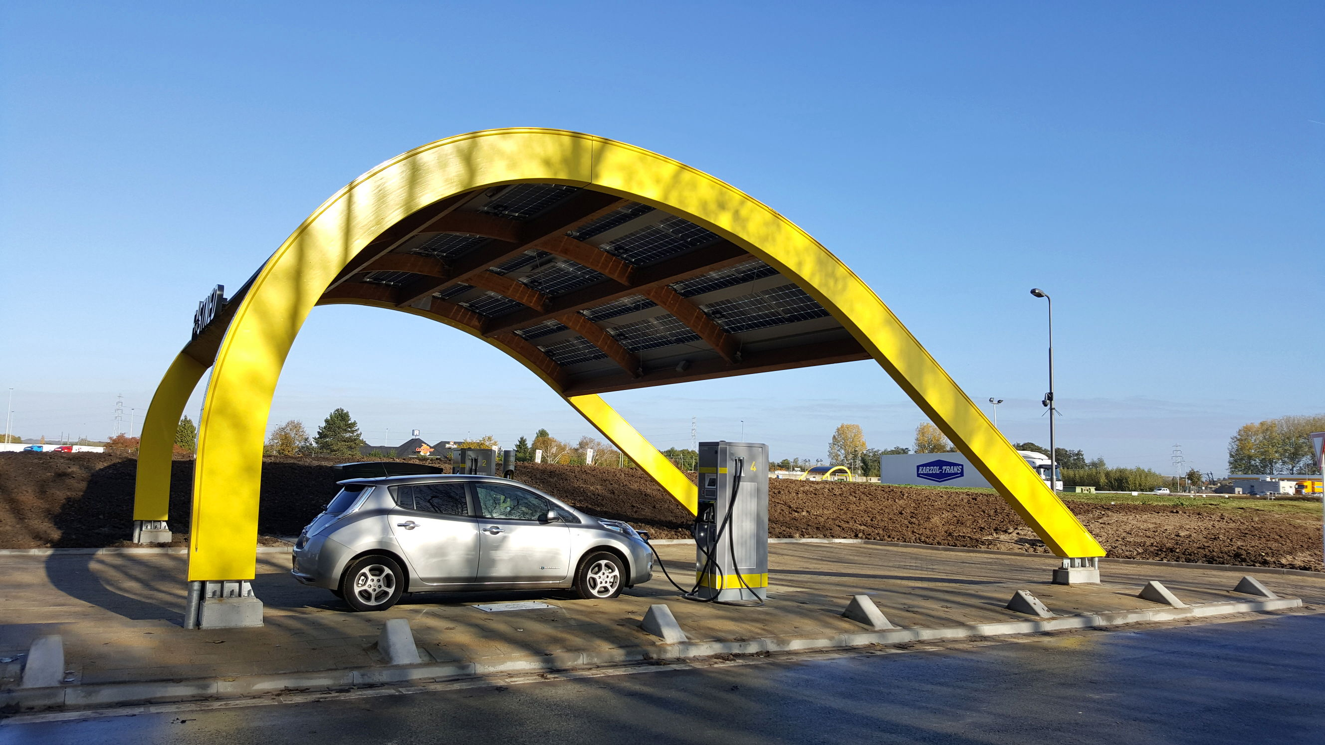 Fastned chargepoint with solarpanelroof